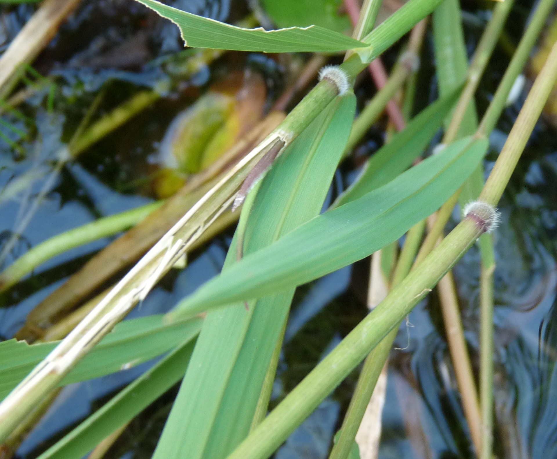 Leersia japonica